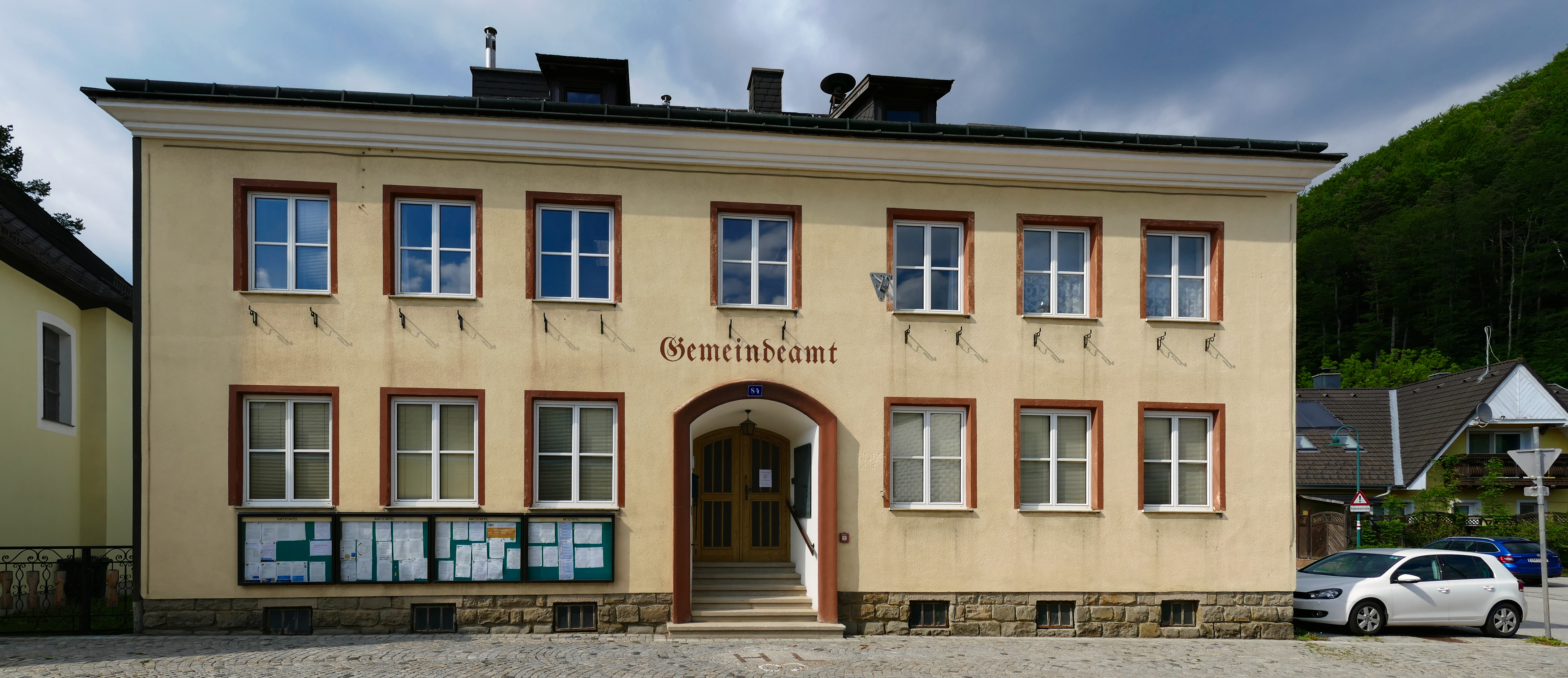 Municipal office in Klausen-Leopoldsdorf, district of Baden, Lower Austria, Austria.